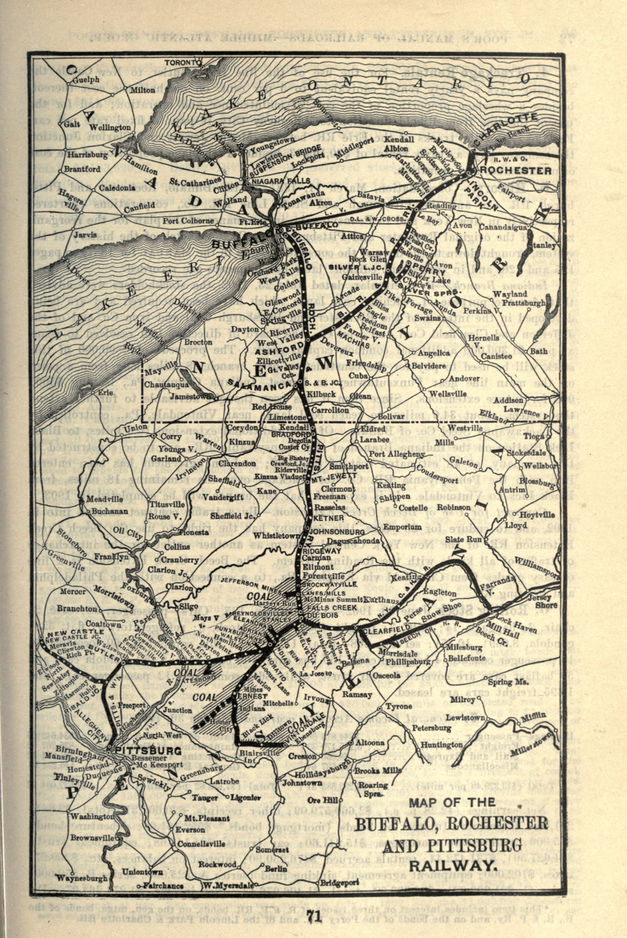 Buffalo, Rochester and Pittsburg Railway